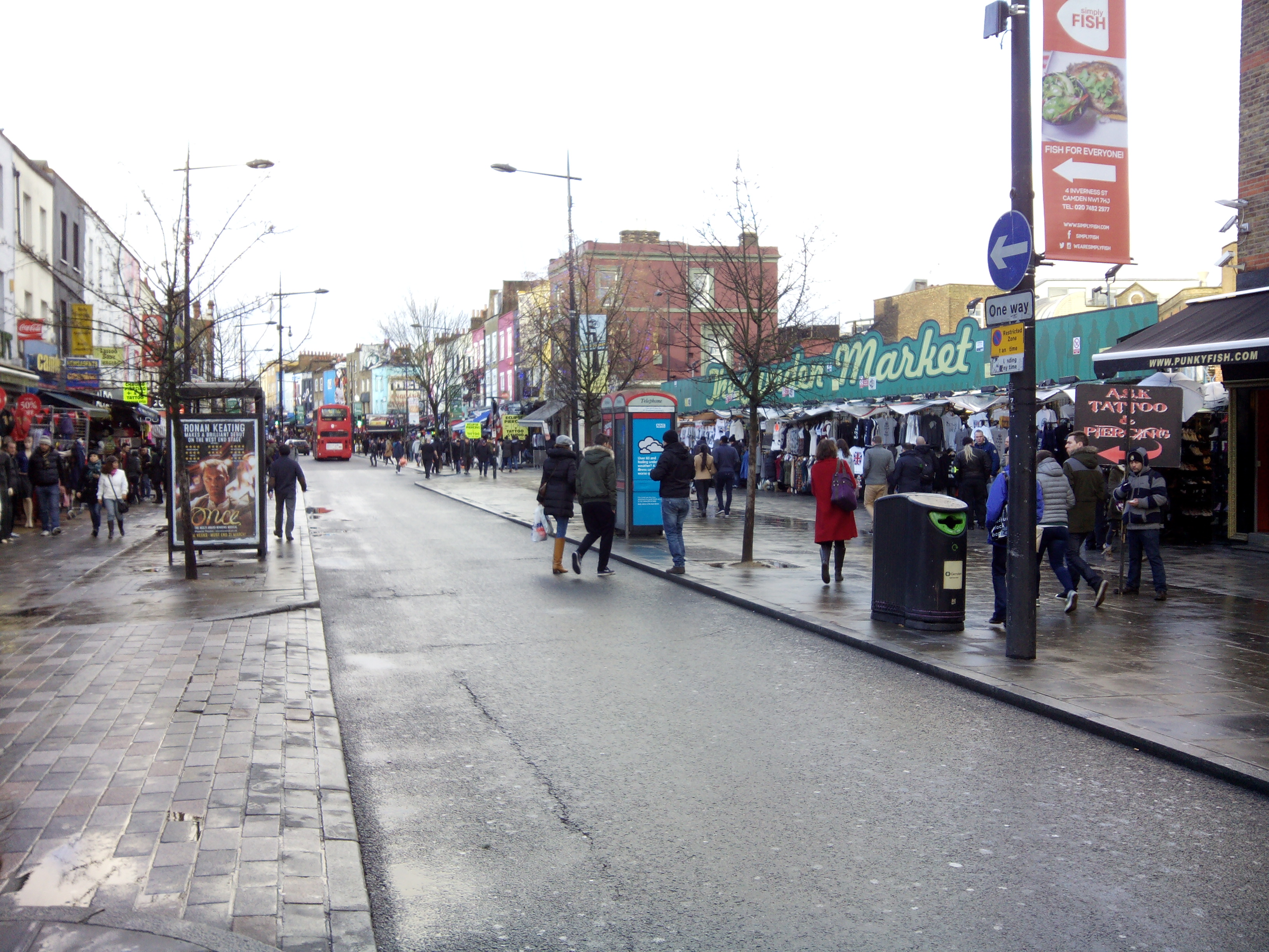 Camden High Street, Candem, London, UK, january 2015